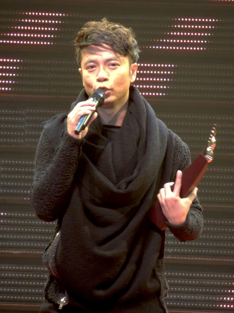 Ultimate Song Chart Awards 2013